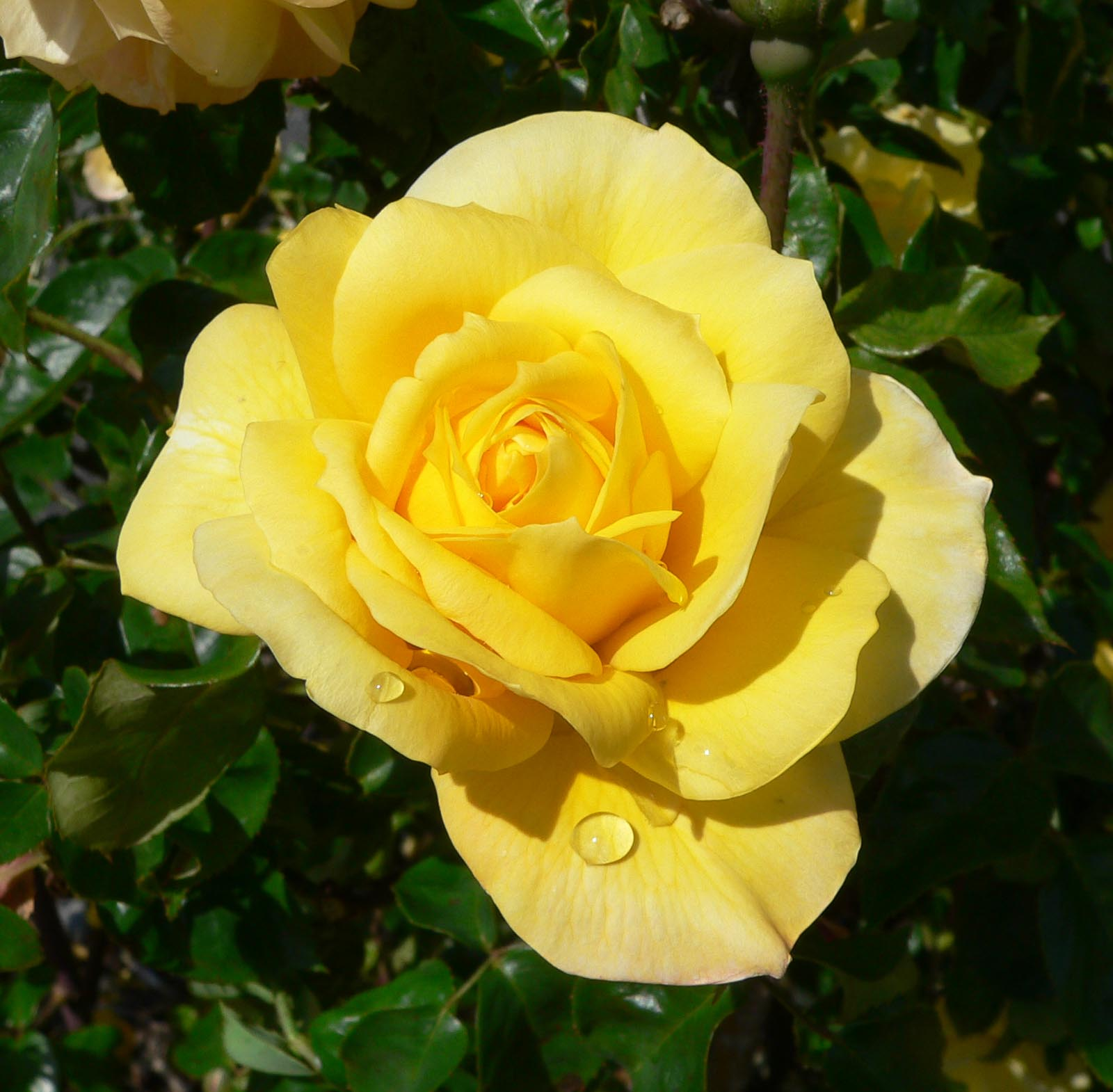 Photo of Rosa 'Gold Glow' at the San Jose Heritage Rose Garden (Californie, USA), taken in April 2005 by User:Stan Shebs.